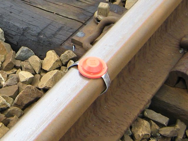 Rail mounted explosive warning device - a detonator.